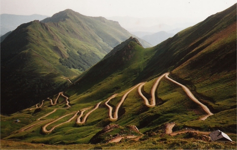 Hairpins on a track to the south of Mont Valier, Pyrenees